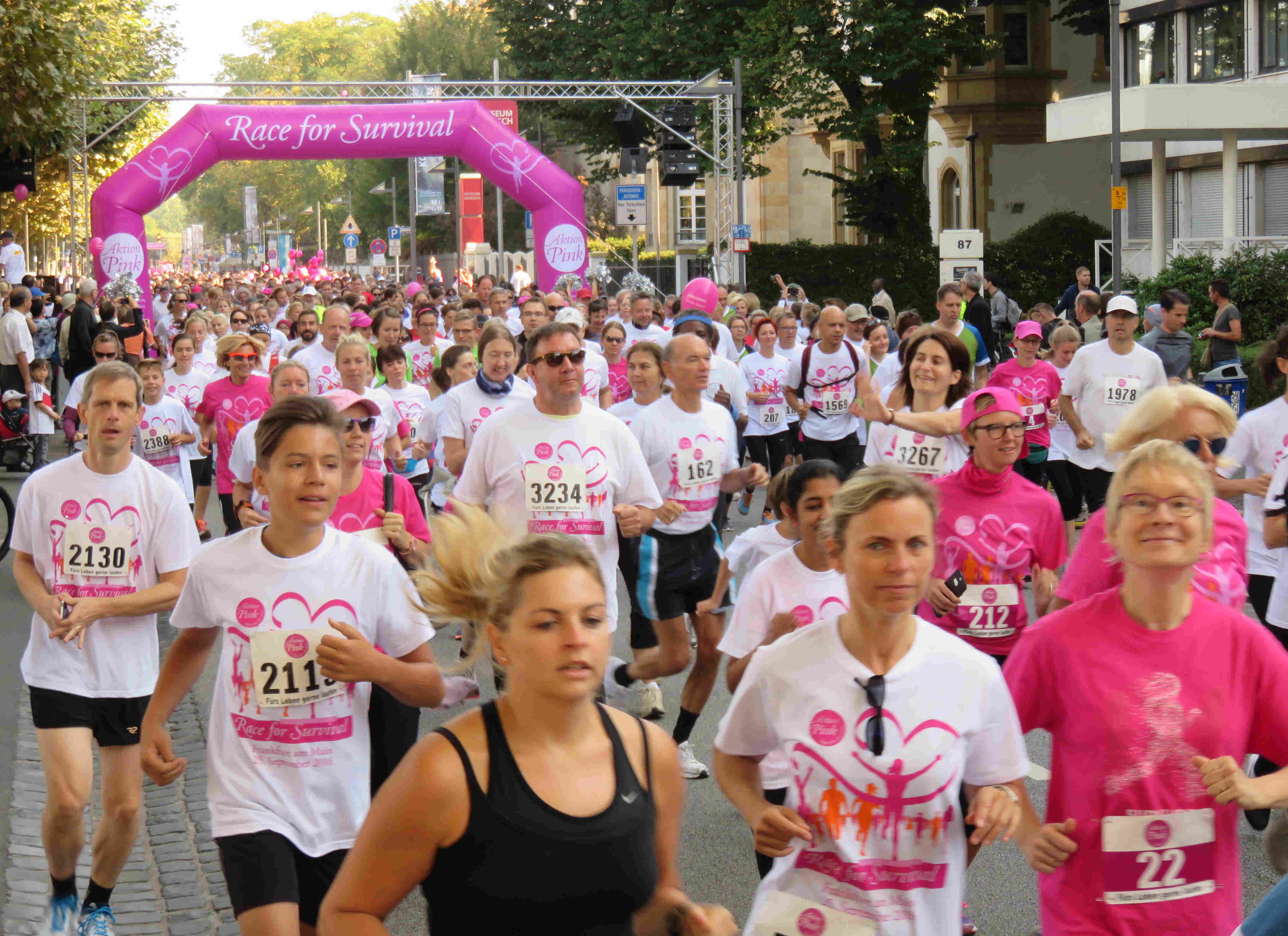 Former "Komen Race for the cure", since 2016: "Race for Survival". Start. Frankfurt am Main, Museumsufer